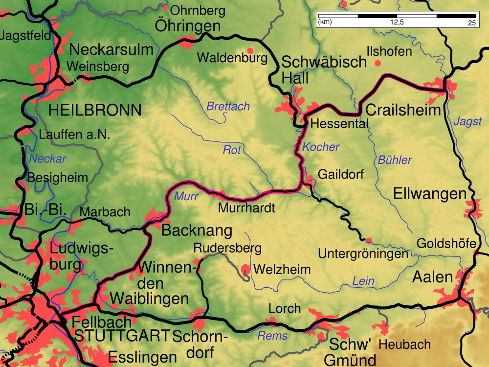 map of the Murrbahn. please see User:Kjunix/BahnNWB for comments.